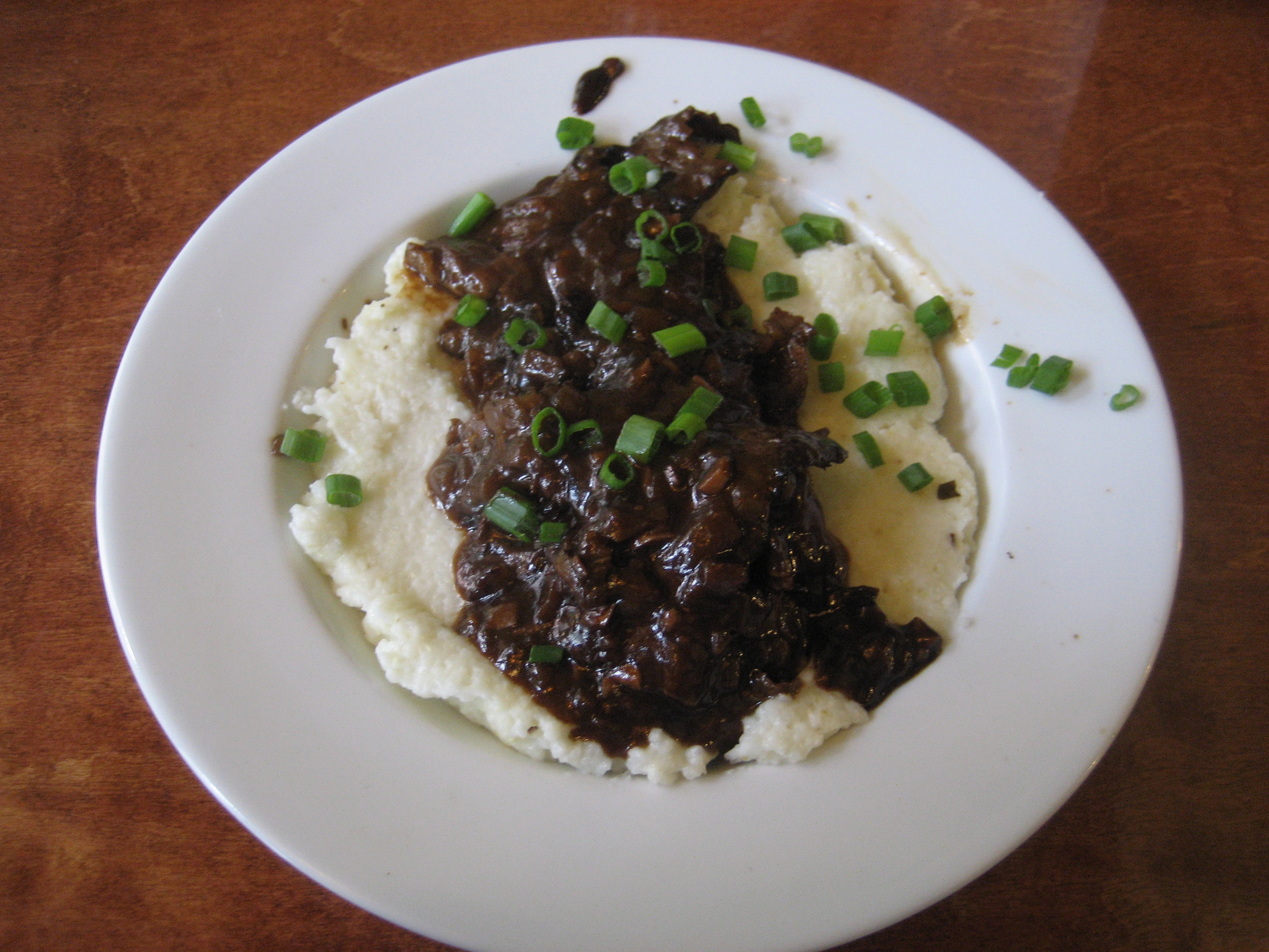 Grits & grillades, Green Goddess Restaurant, Exchange Alley, New Orleans.